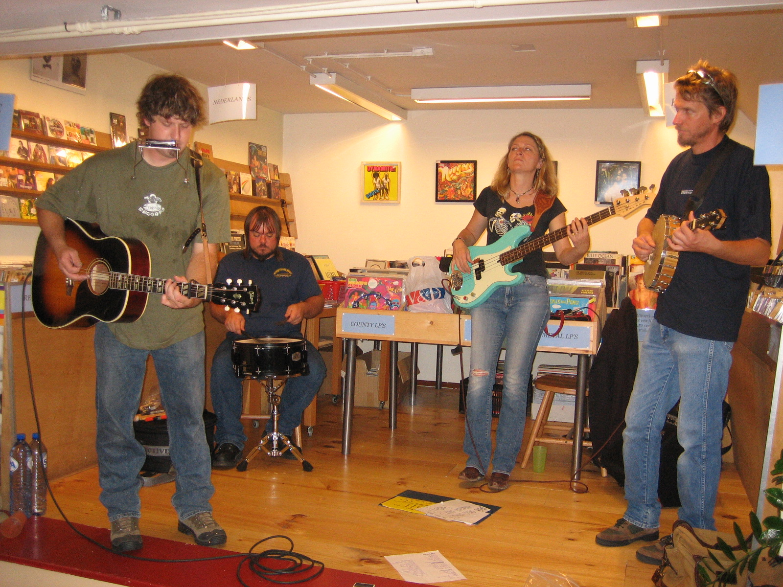 Boris (McCutcheon) & the Saltlicks, in-store @ Velvet record store, Amsterdam, The Netherlands (29 september 2006)